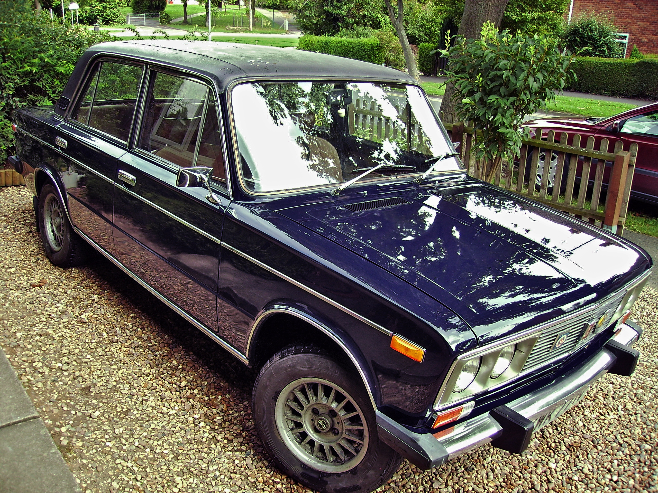 Lada 2106